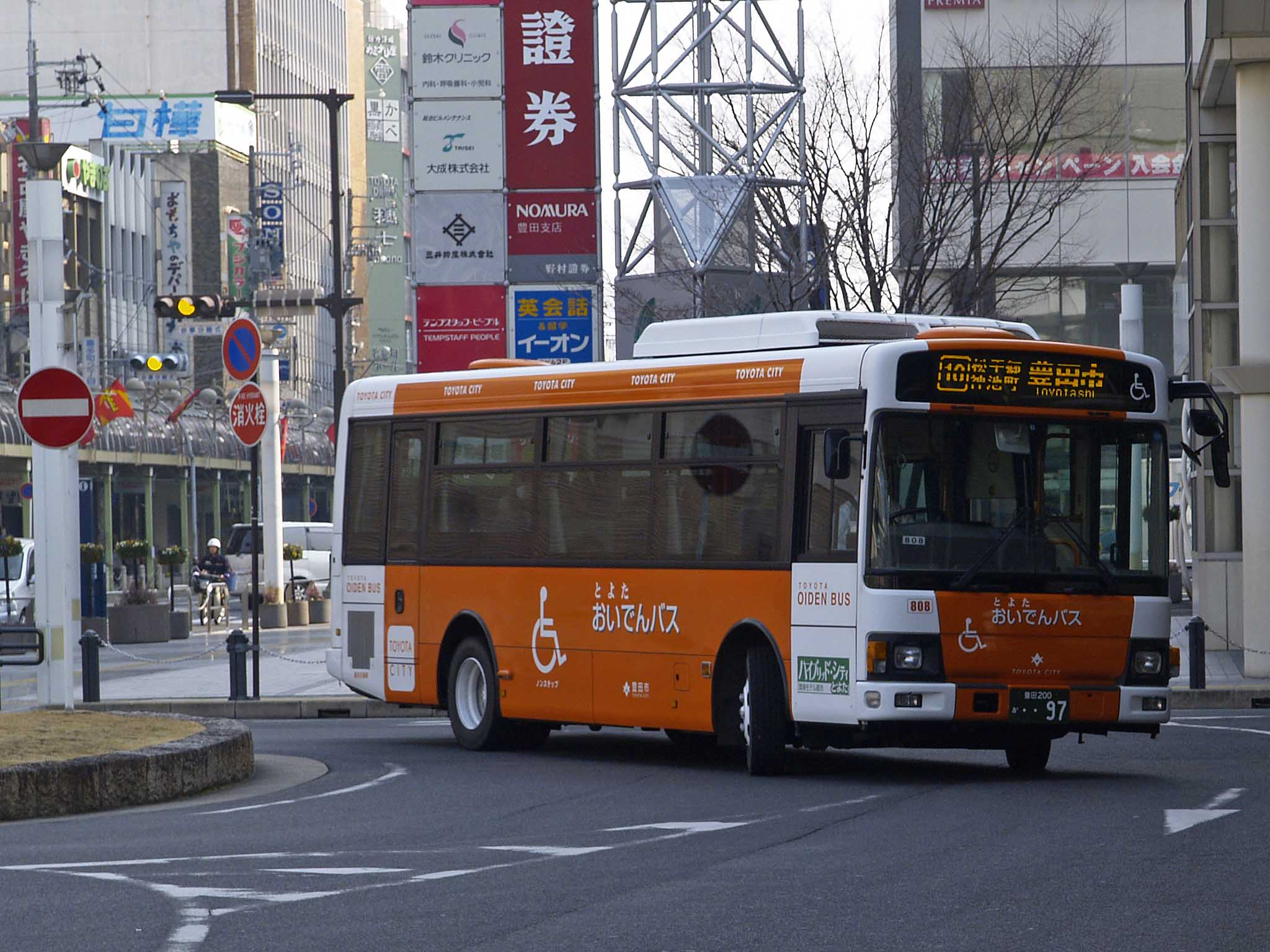 Fleet of Hoei Kotsu, for Toyota Oiden Bus. Model: Hino rainbow II KR233J License plate: ACY200 KA--97 Place: Toyota-shi Station, Toyota City, Aichi japan